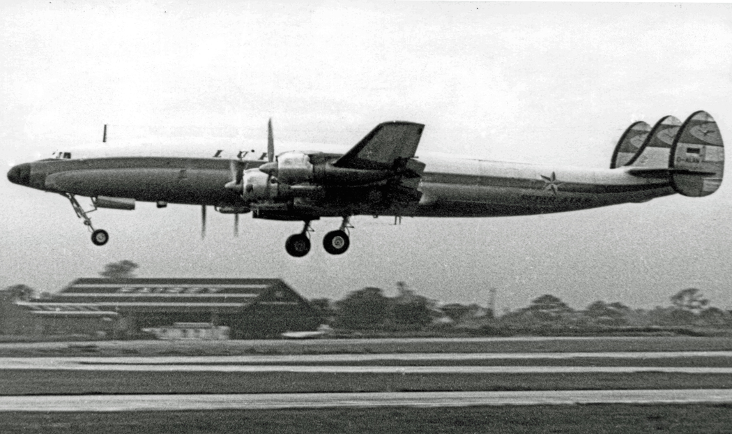 Lockheed L1649A Starliner freighter of Lufthansa taking off from Manchester airport on a freight schedule to New York Idlewild, later JFK.